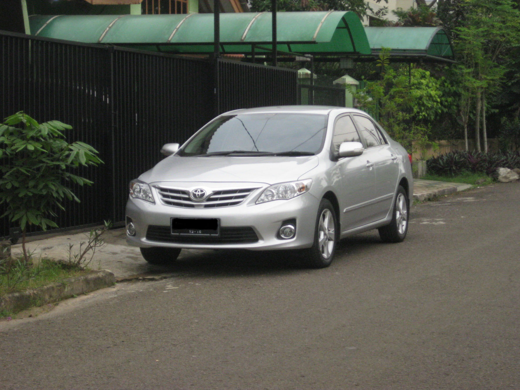 The facelift model 2011 Toyota Corolla Altis 1.8 G (ZRE142), photographed in Tangerang, Indonesia.